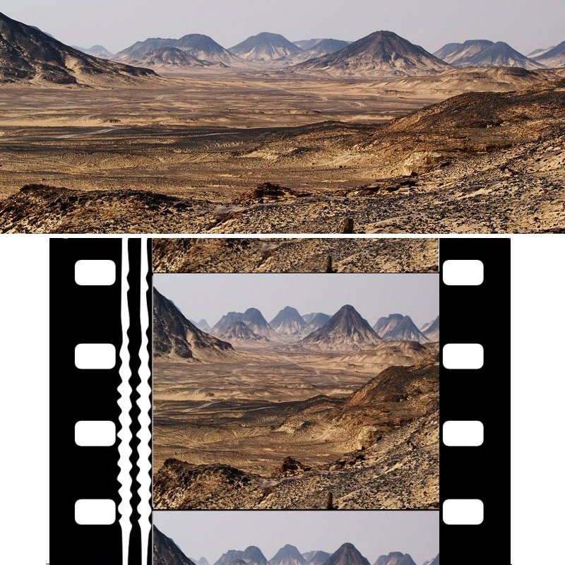 Comparison between the "normal" picture and the anamorphic picture on a 35 mm film (Cinemascope)